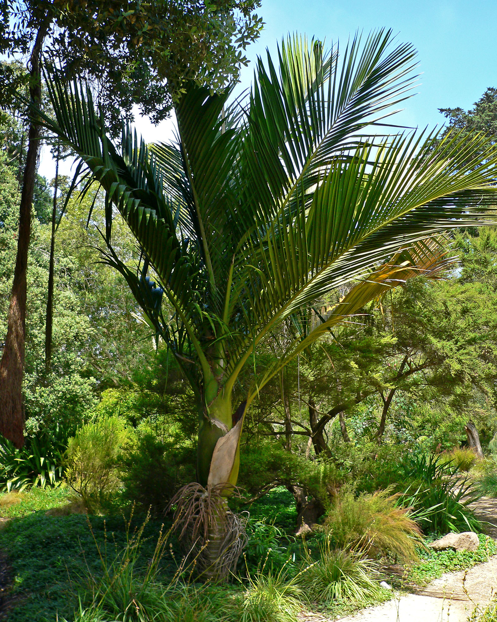 Rhopalostylis baueri at the San Francisco Botanical Garden